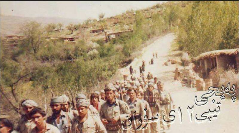 گووندی گەرەوان